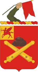 US 10th Field Artillery Regiment Coat of Arms. Contents 1 Blazon 2 Symbolism 3 Licensing 4 Original upload log Blazon Shield: Gules, a rock Proper resting on two cannons in saltire Or. On a canton of the last a winged centaur courant holding a bent bow and arrow of the field (for the 6th Field Artillery). Crest: On a wreath of the colors or and Gules, a dexter arm embowed habited in Olive Drab grasping a Red guidon on a broken staff all Proper. Motto: The Rock's Support. Symbolism The shield is scarlet for Artillery, the parent organization being shown by its crest placed on the canton. The 38th Infantry earned the sobriquet of "The Rock of the Marne," and this regiment is therefore entitled to the motto "The Rock's Support," and it is shown by the two cannons supporting a rock. The crest symbolizes the honorable loss and recapture of its guns. Obtained from US Army Institute of Heraldry at . Image and text available at